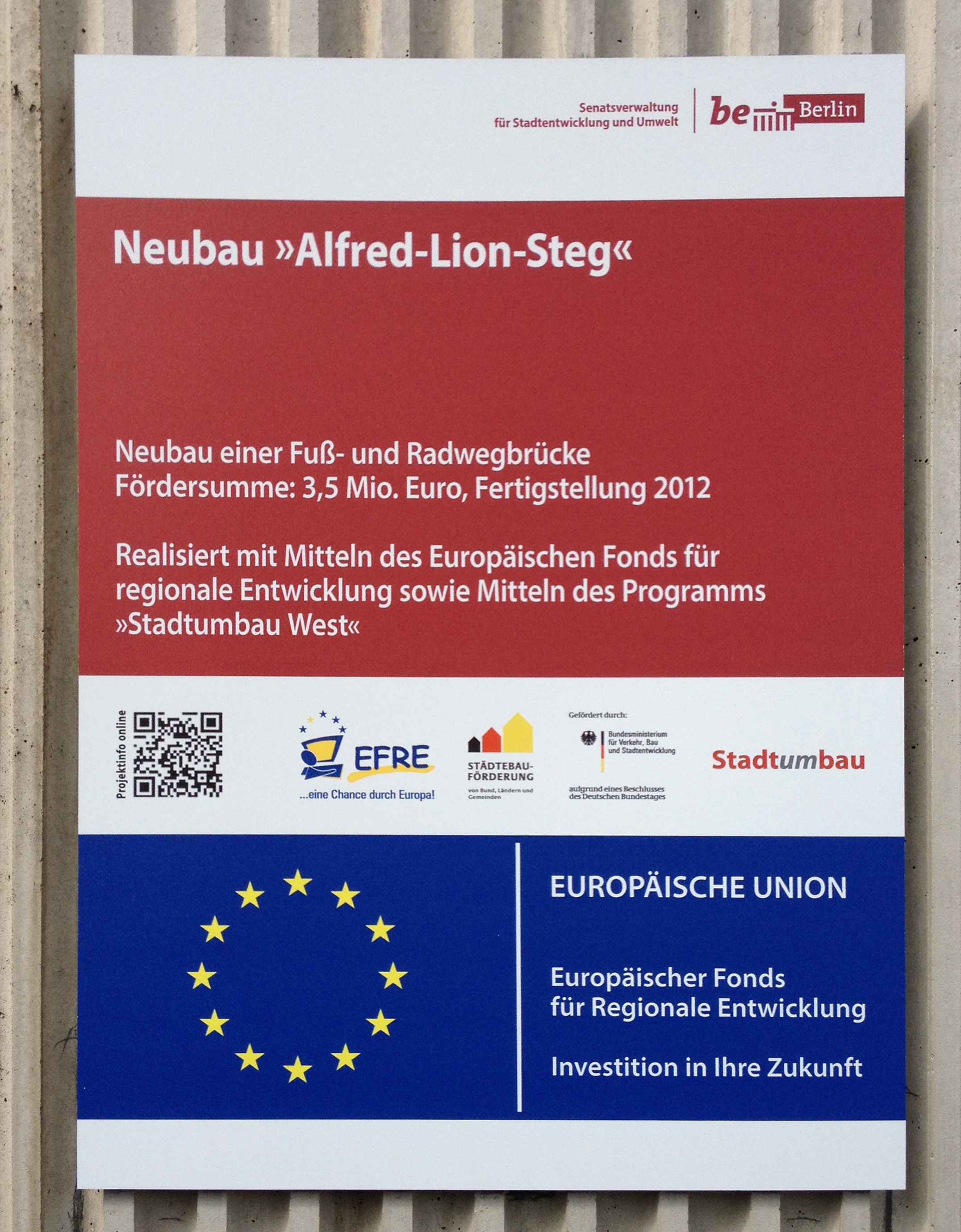 Alfred-Lion-Steg, Berlin. Information board.